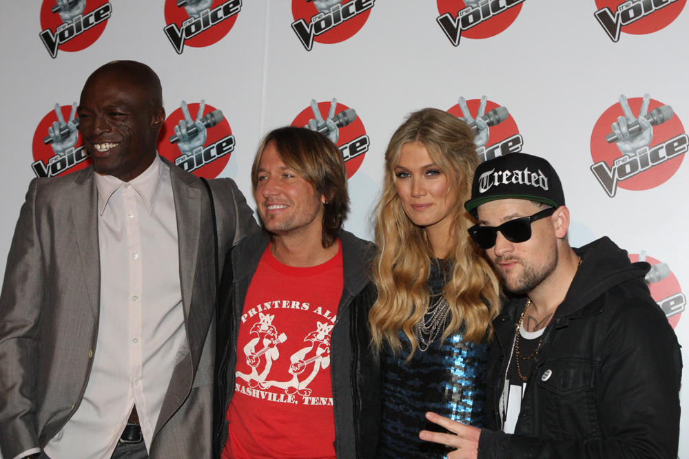 The Voice news media report; Hordern Pavilion, Moore Park, Sydney, Australia